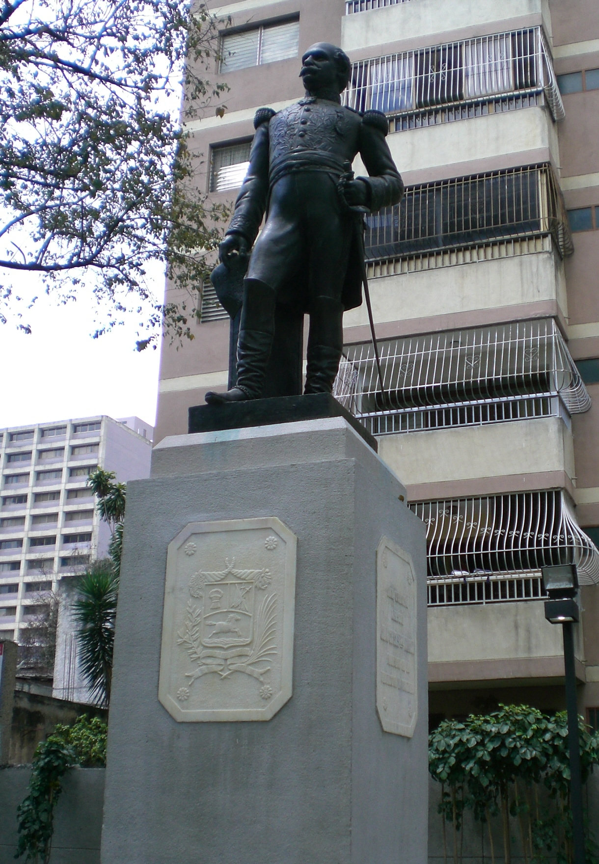 Statue of Juan Crisóstomo Falcón in Caracas, Venezuela